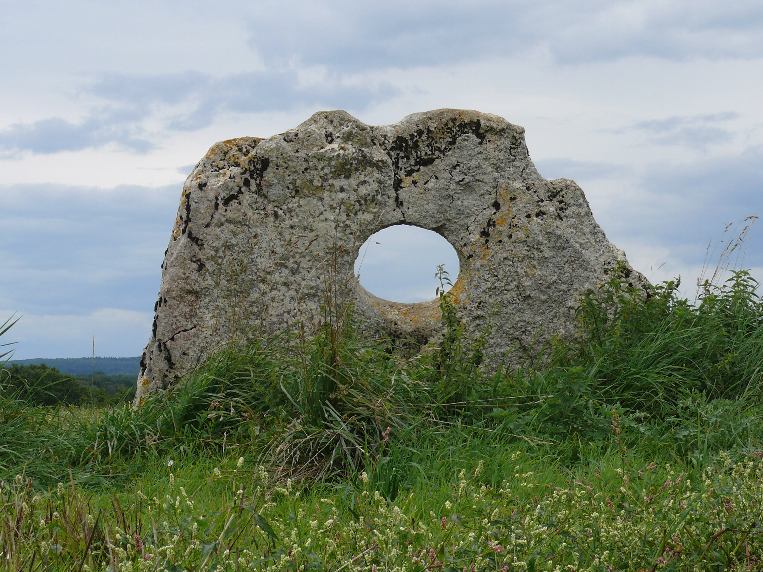 "Pierre percée" (ie "rock with a hole"). Remains of a dolmen in Traves (Haute-Saône, France)